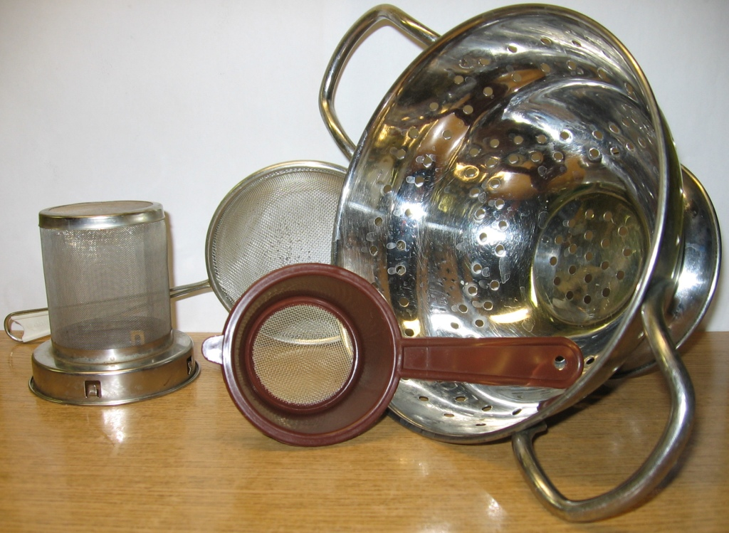 Kitchen sieves